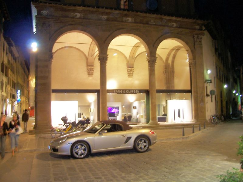 The reason why B&O is expensive: you've got to pay for the manager's Porsche!